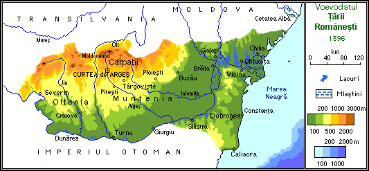 The Principality of Valachia (Wallachia) in 1396